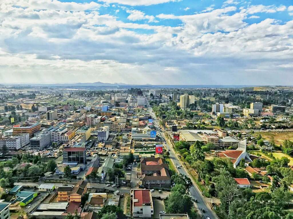 Skyline of Eldoret. Captured from Daima Towers